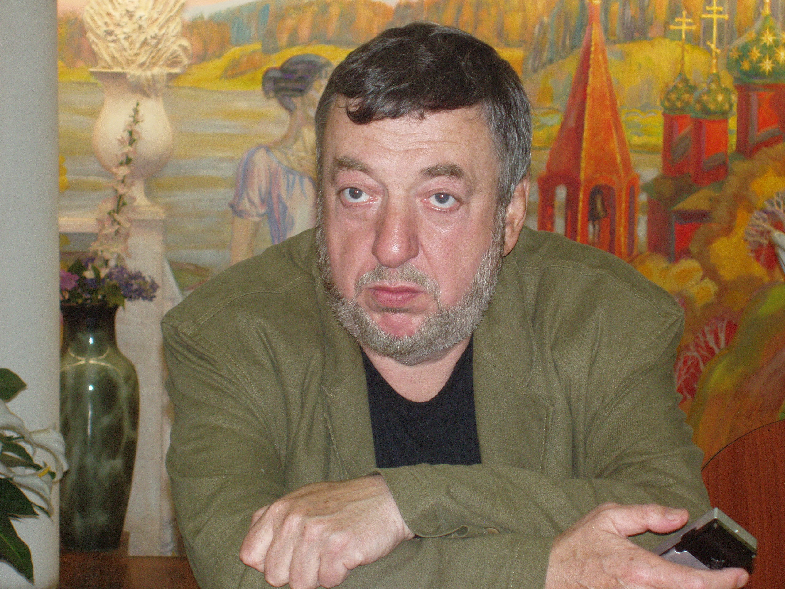 Pavel Lungin - writer, film director